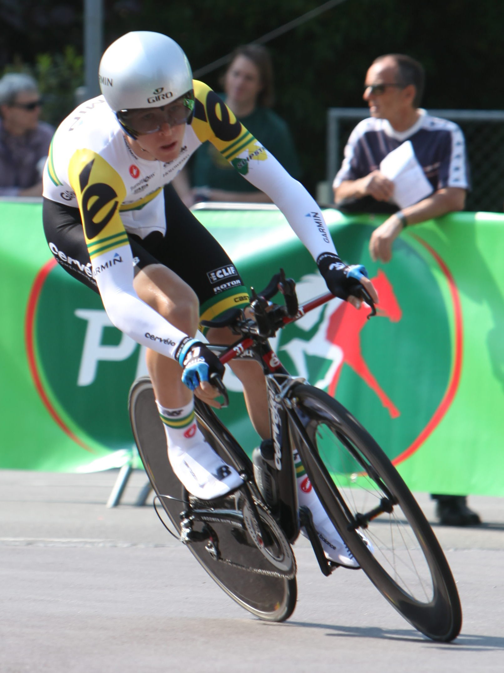 Cameron Meyer at the prologue of the Tour de Romandie 2011